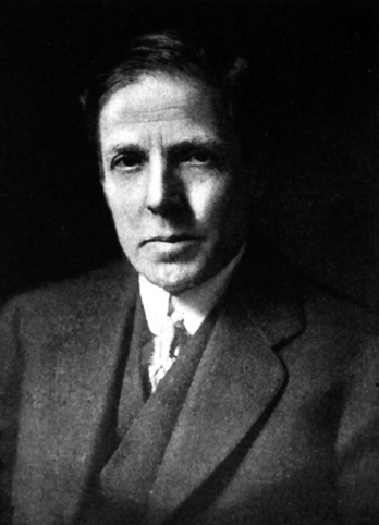 Portrait of Vernon Lyman Kellogg (1867-1937)